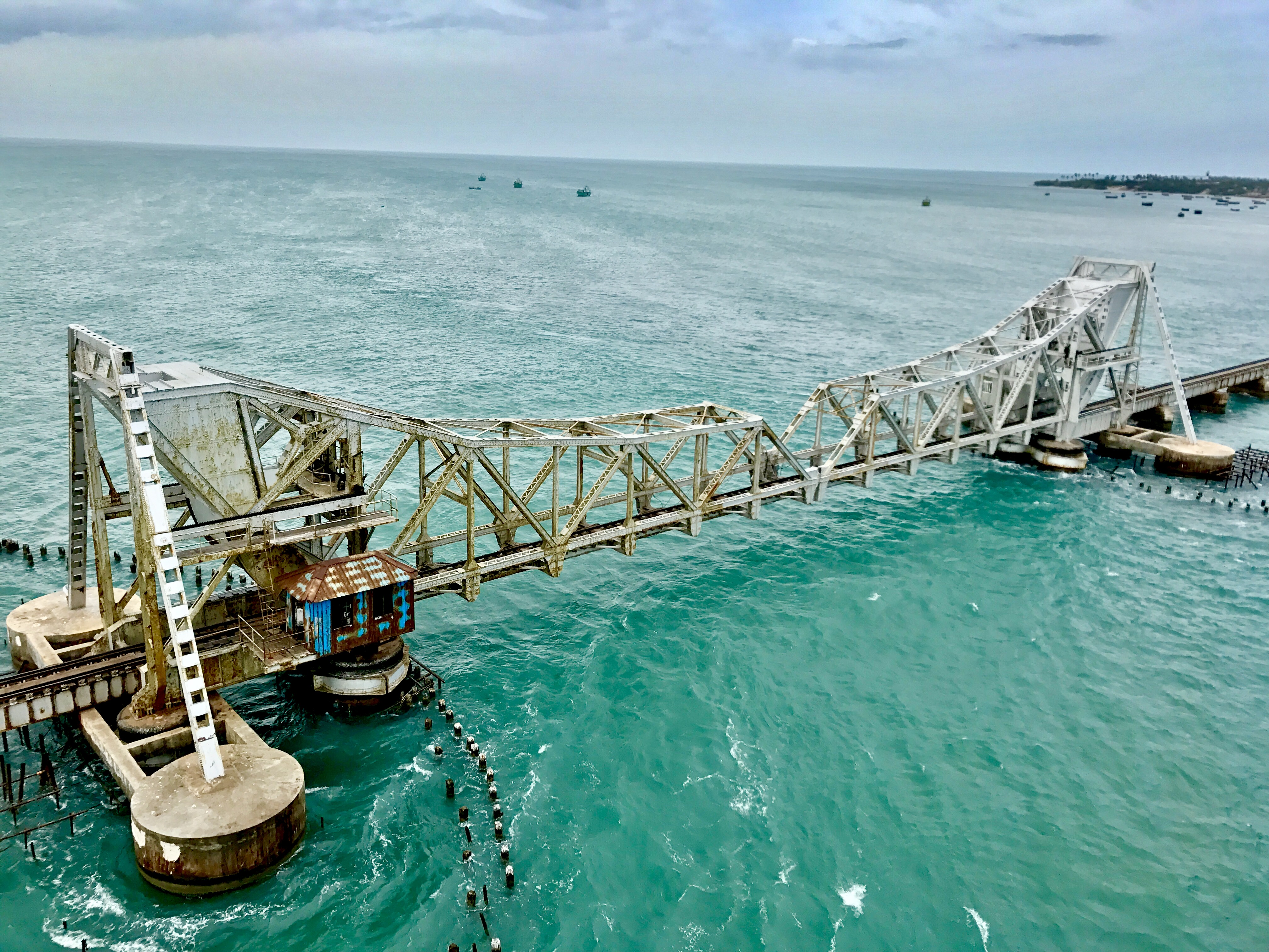 A closeup shot of Pamban Bridge, Rameswaram